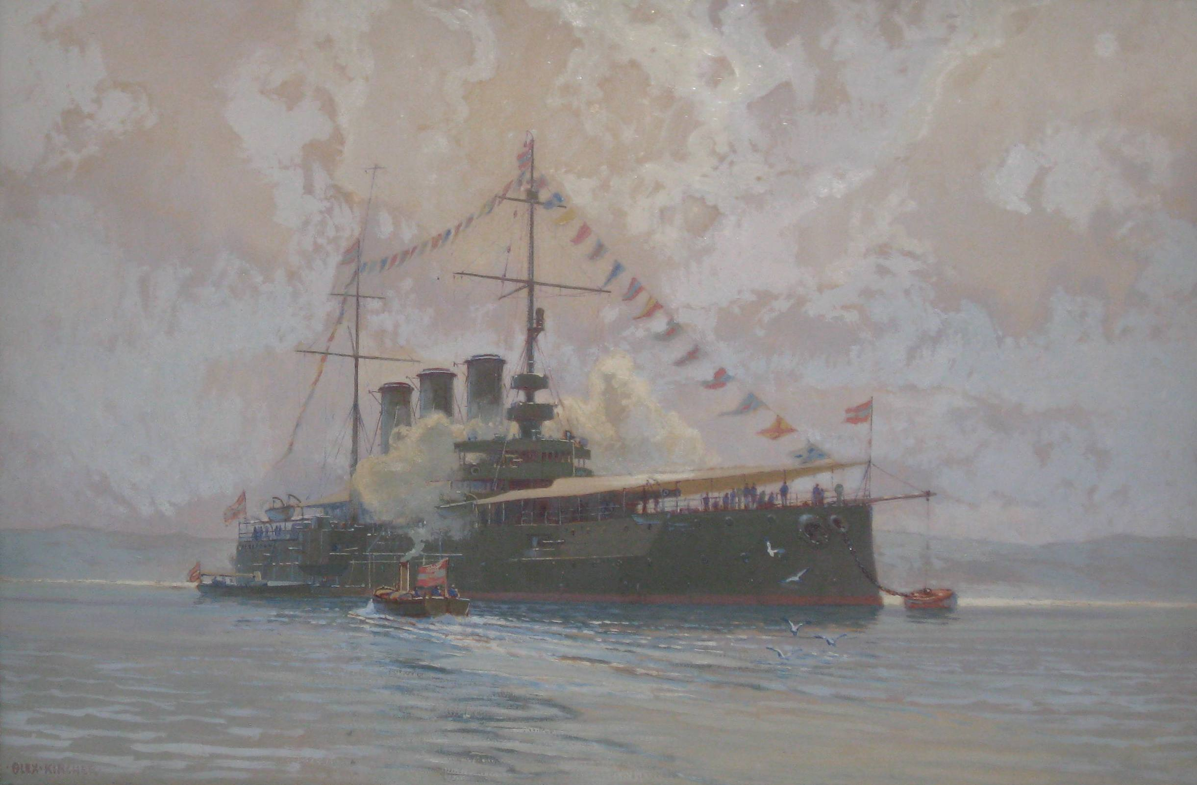 SMS Erzherzog Karl, a painting by the German-Austrian marine painter Alexander Kircher